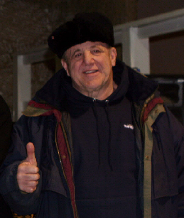 Nikolai Volkoff during the "Legends of Wrestling" tour that came to Bagram Air Base, Afghanistan.